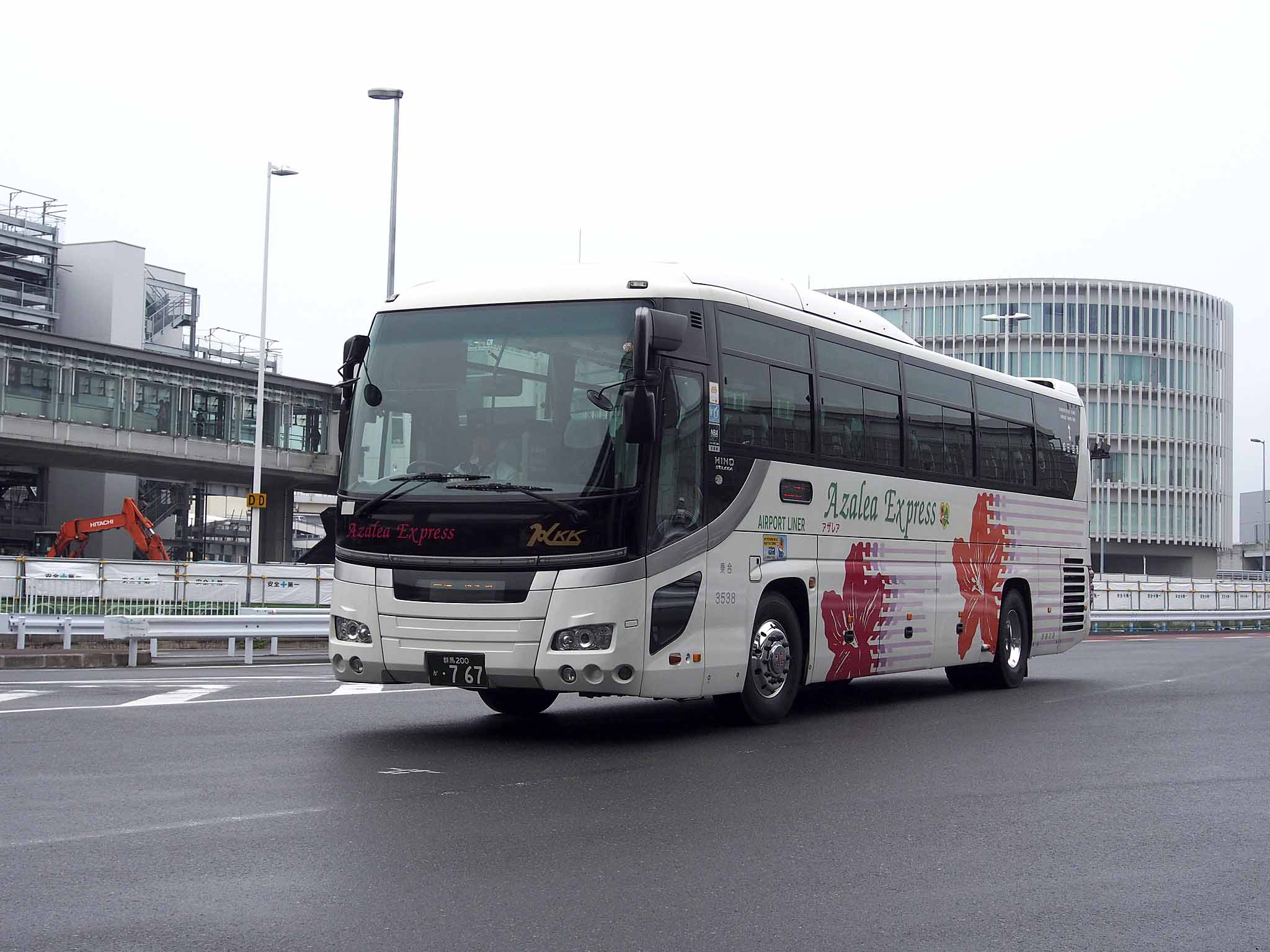 Fleet of Kan-tsu Kotsu, for Narita Airport Line "Azalea", bound for Takasaki and Maebashi, Gunma. Model: Hino Selega HD RU1ESAA License pkate: GMG200 KA0767 Place: Narita International Airport Terminal 1